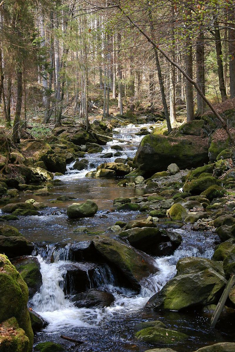 The Große Ohe creek below the Steinklamm south of Spiegelau.